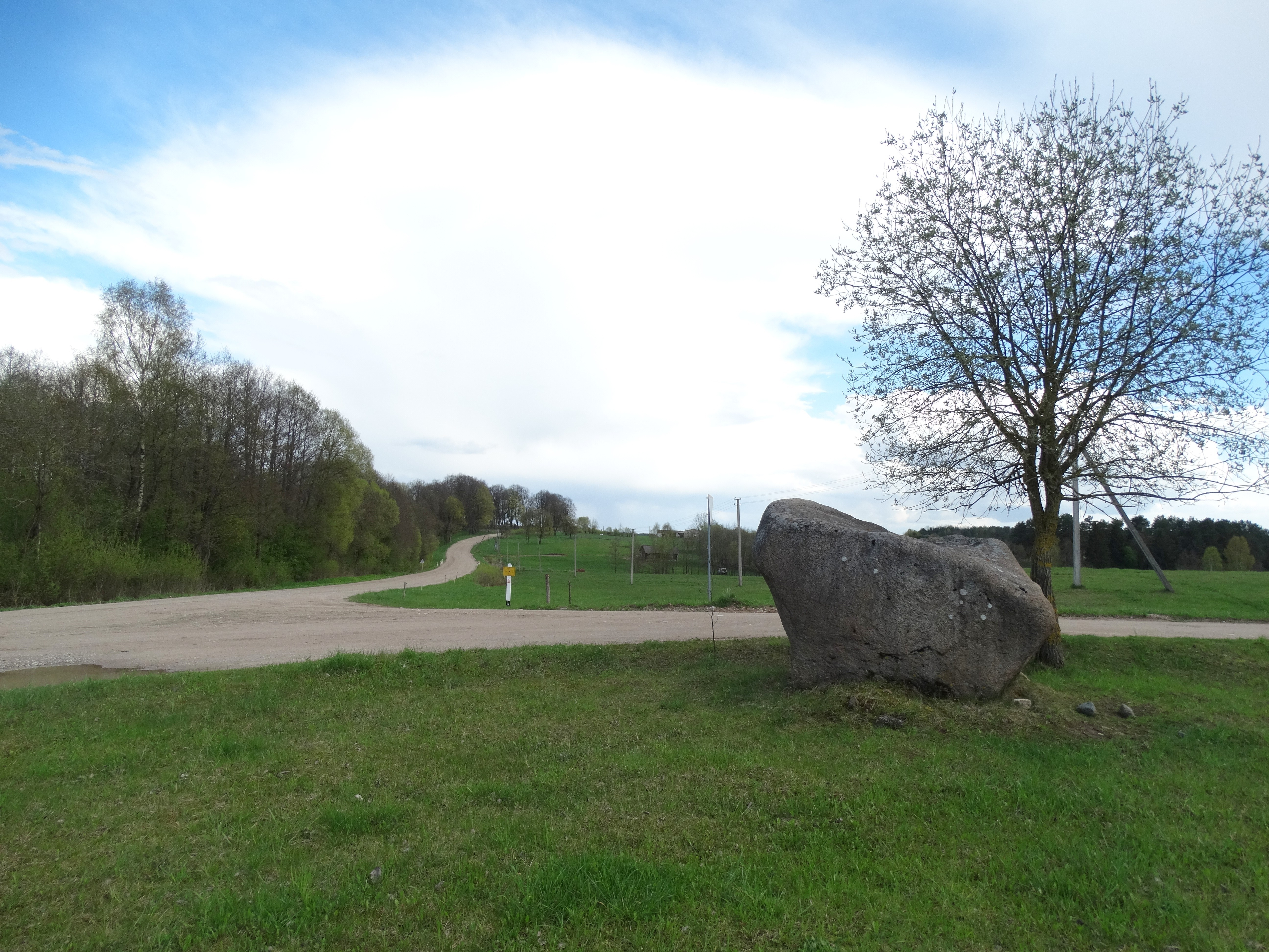 Sangėliškės, Šalčininkai District, Lithuania